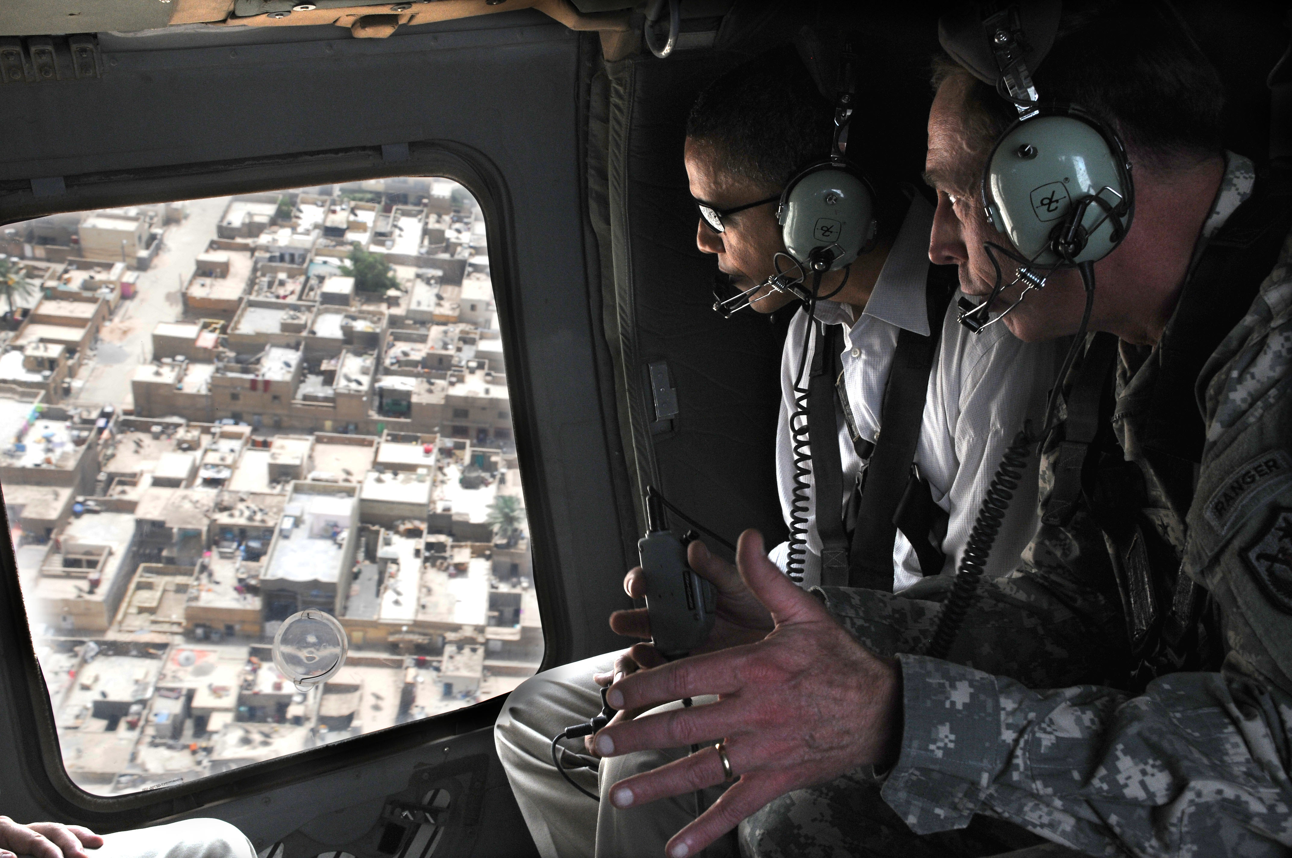 Gen. David H. Petraeus explains security improvements in Sadr City while giving an aerial tour of Baghdad Monday to Sen.'s Barack Obama, Jack Reed and Chuck Hagel.